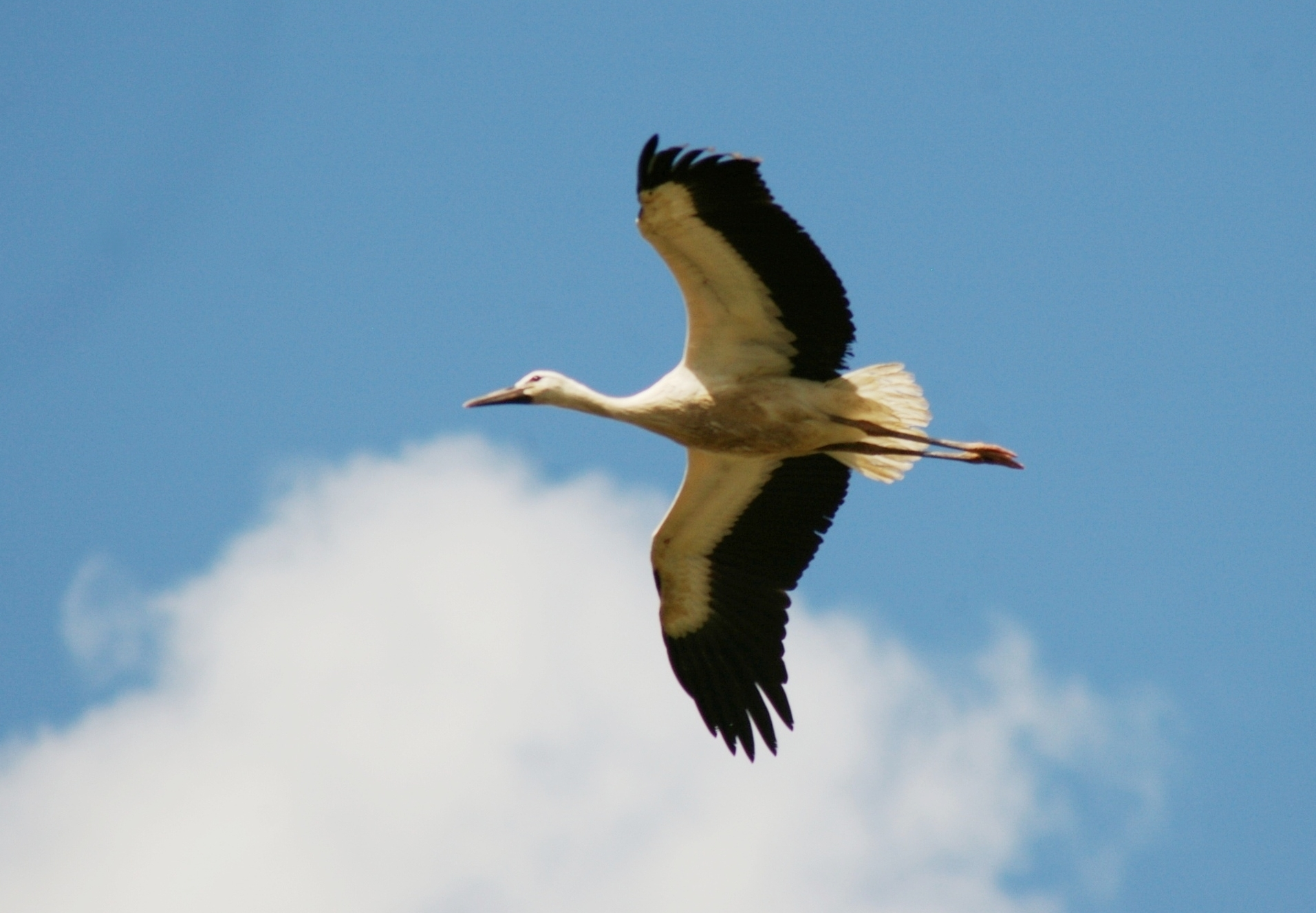 Ciconia ciconia: First flying day (2016-07-03) at Langwedel (Holstein)